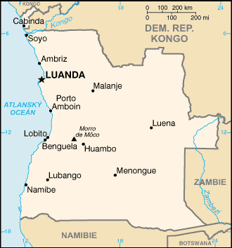 Map of Angola from CIA World Factbook, translated from Image:Angola map.png